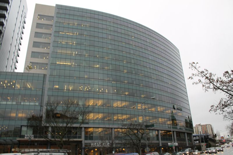 The front of the PATH office in Seattle. The PATH name is visible on their sign on the front of the building.